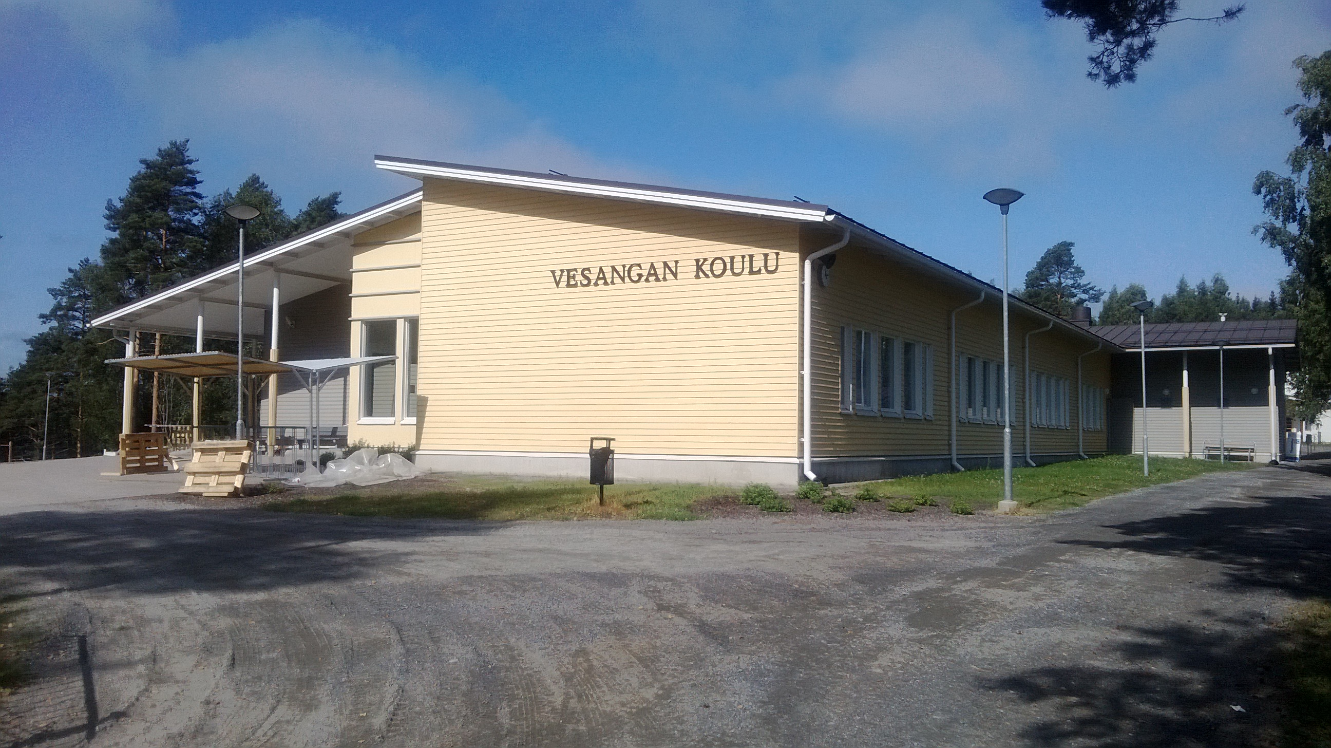 building of a primary school in (village) Vesanka, (city of) Jyväskylä, Finland